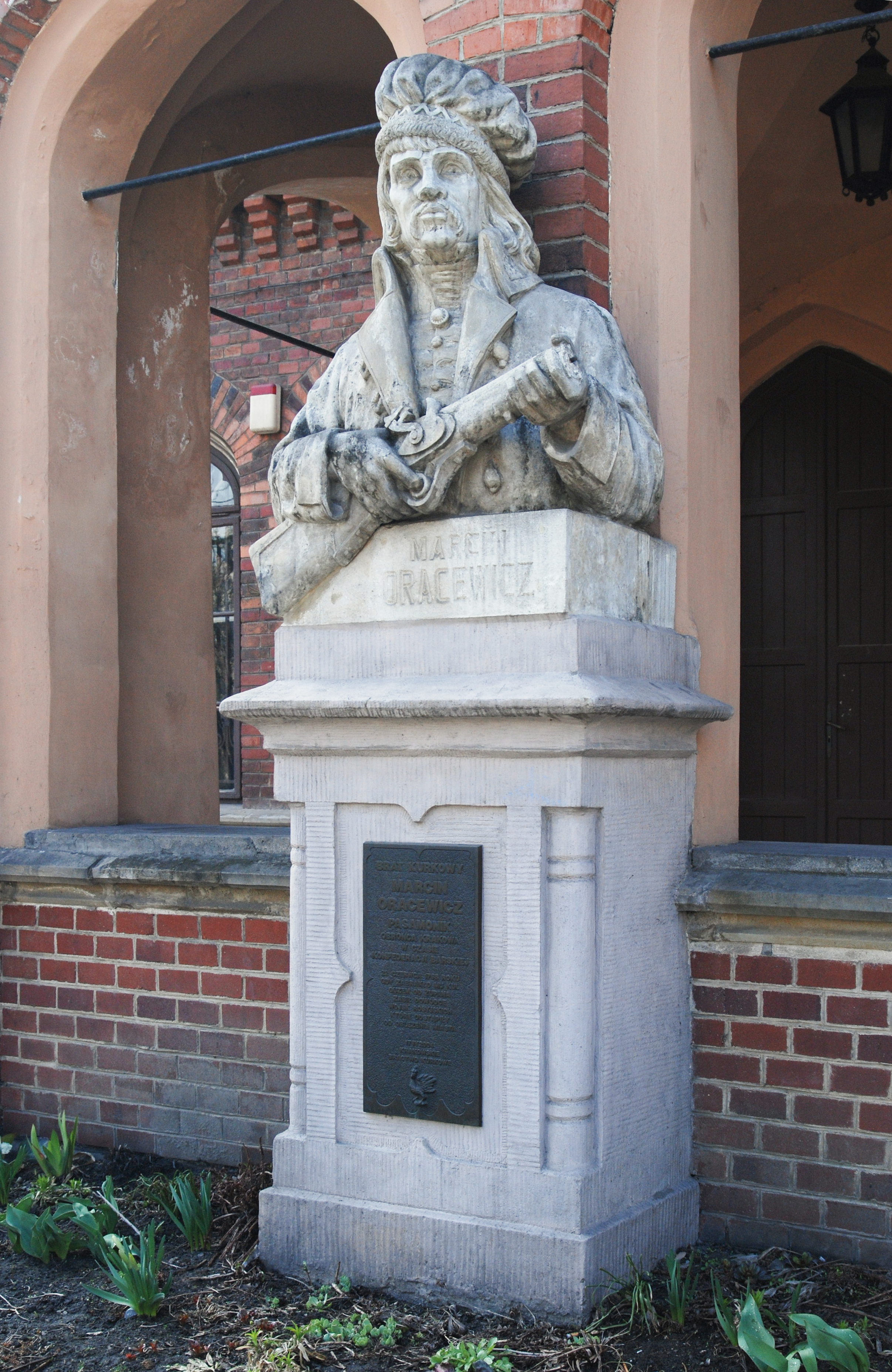 Marcin Oracewicz monument near "Celestat", Lubicz street, Kraków, Poland